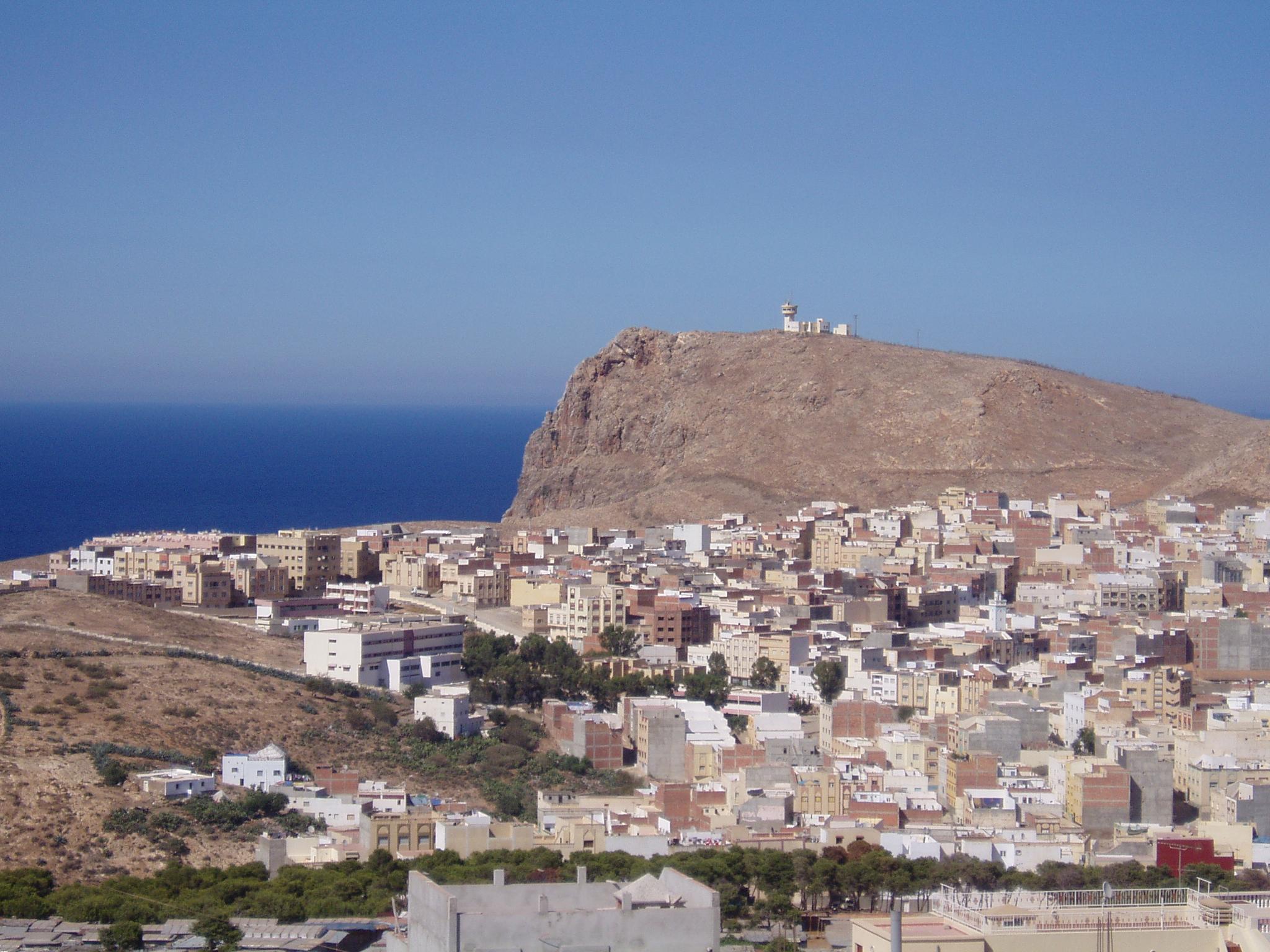 Photo of Al Hoceima, Morocco taken August 2004.